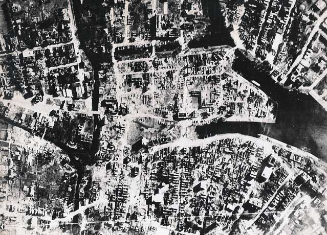 British air photo after the bombing of Emden on September 8th 1944